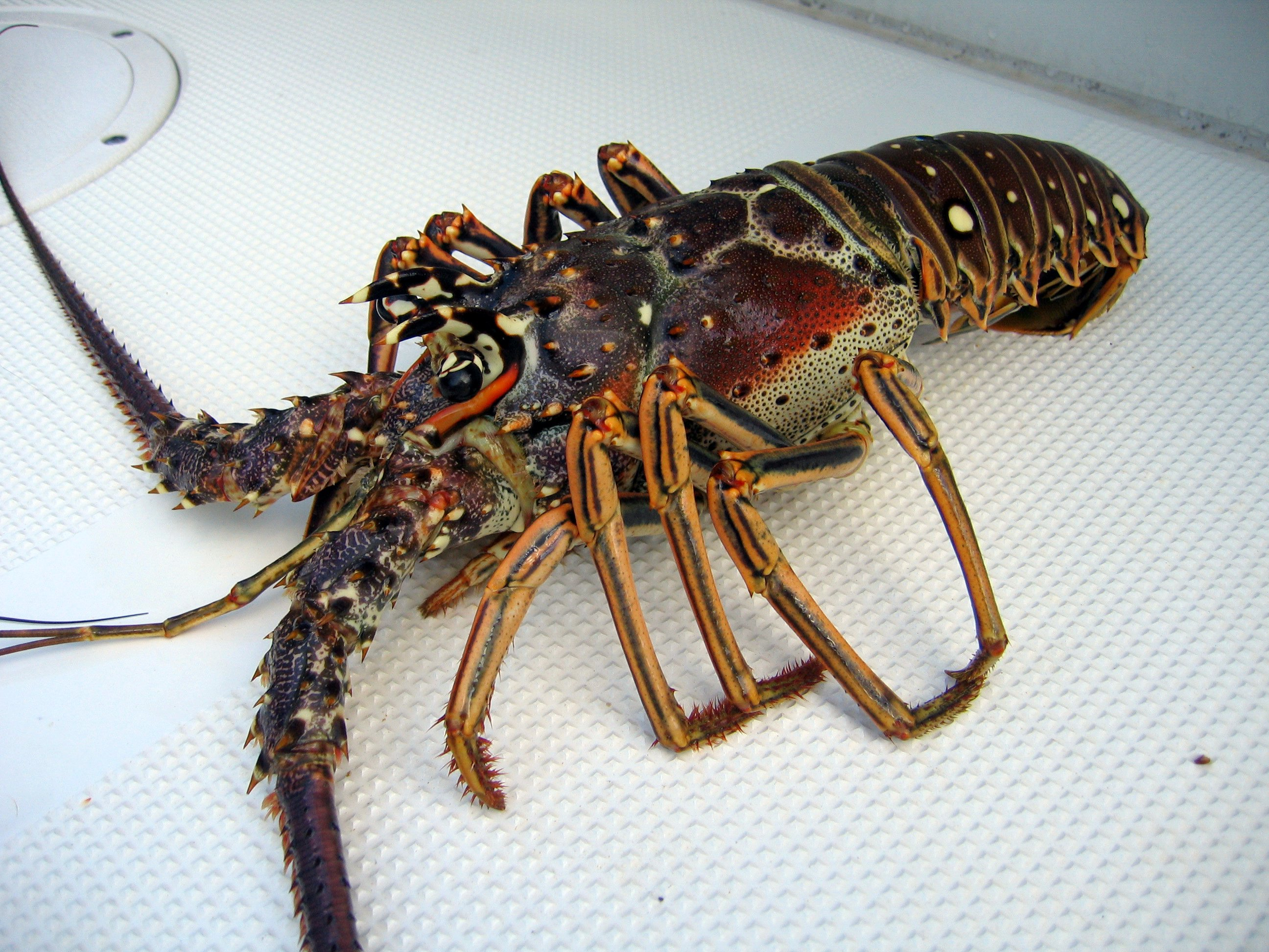 An image I took of a Florida/Caribbean Spiny Lobster (Panulirus argus) caught during the Florida lobster season. As most likely the most widely caught lobster by fisherman in Florida, I figured it deserved a picture (also because I know I was looking for a pic one time here and was surprised there wasn't already one). On a more personal note about taking the picture, I bought a disposable underwater camera for mini-season with the express purpose of taking underwater pictures of this creature, but unfortunately the strap broke and the camera floated away - hence the out-of-water picture of it. --Douglas Whitaker 03:43, 18 August 2006 (UTC)